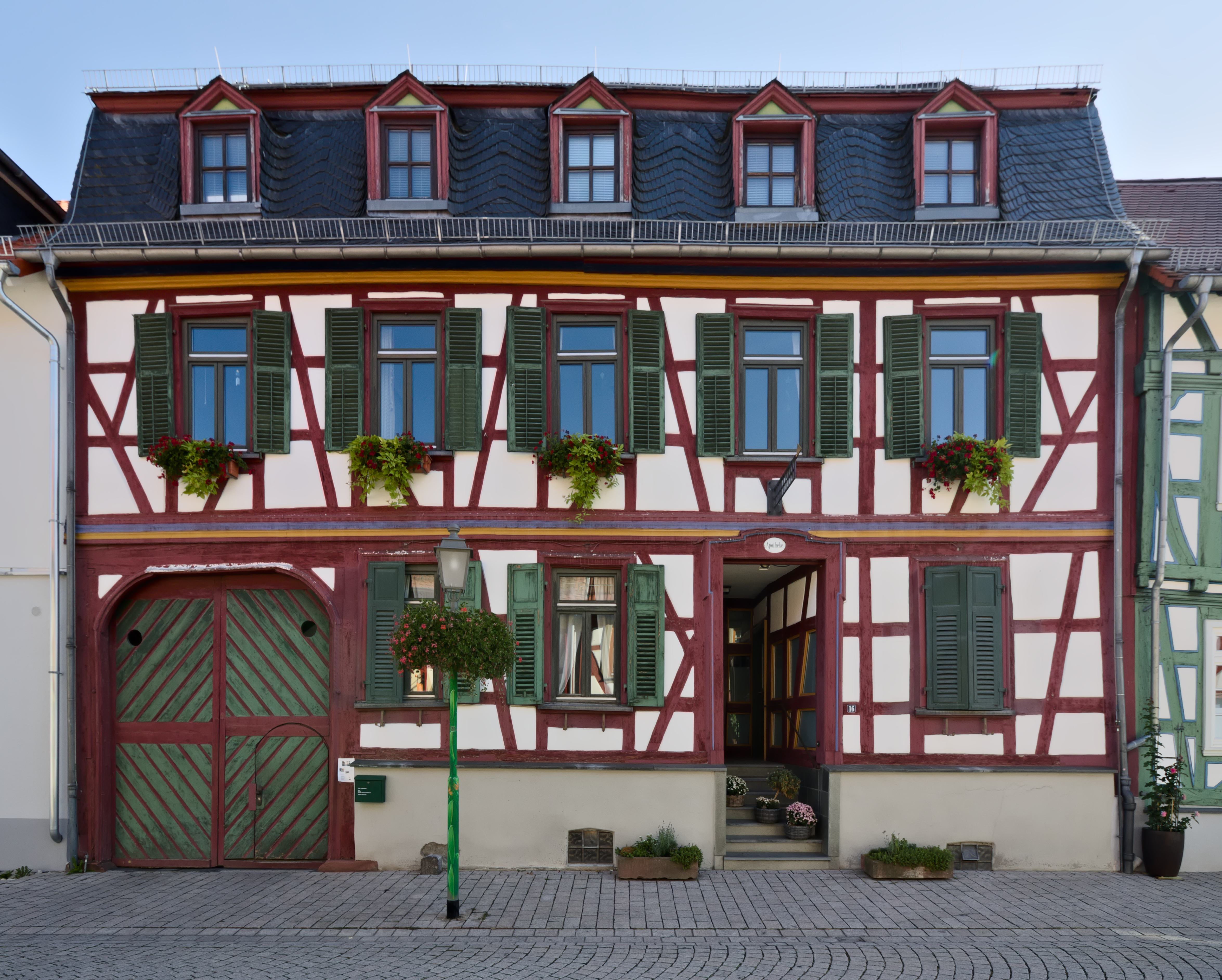 The former pharmacy building "Lindenapotheke" in Idstein, Taunus, Germany. Timber framing from the late 18th century.